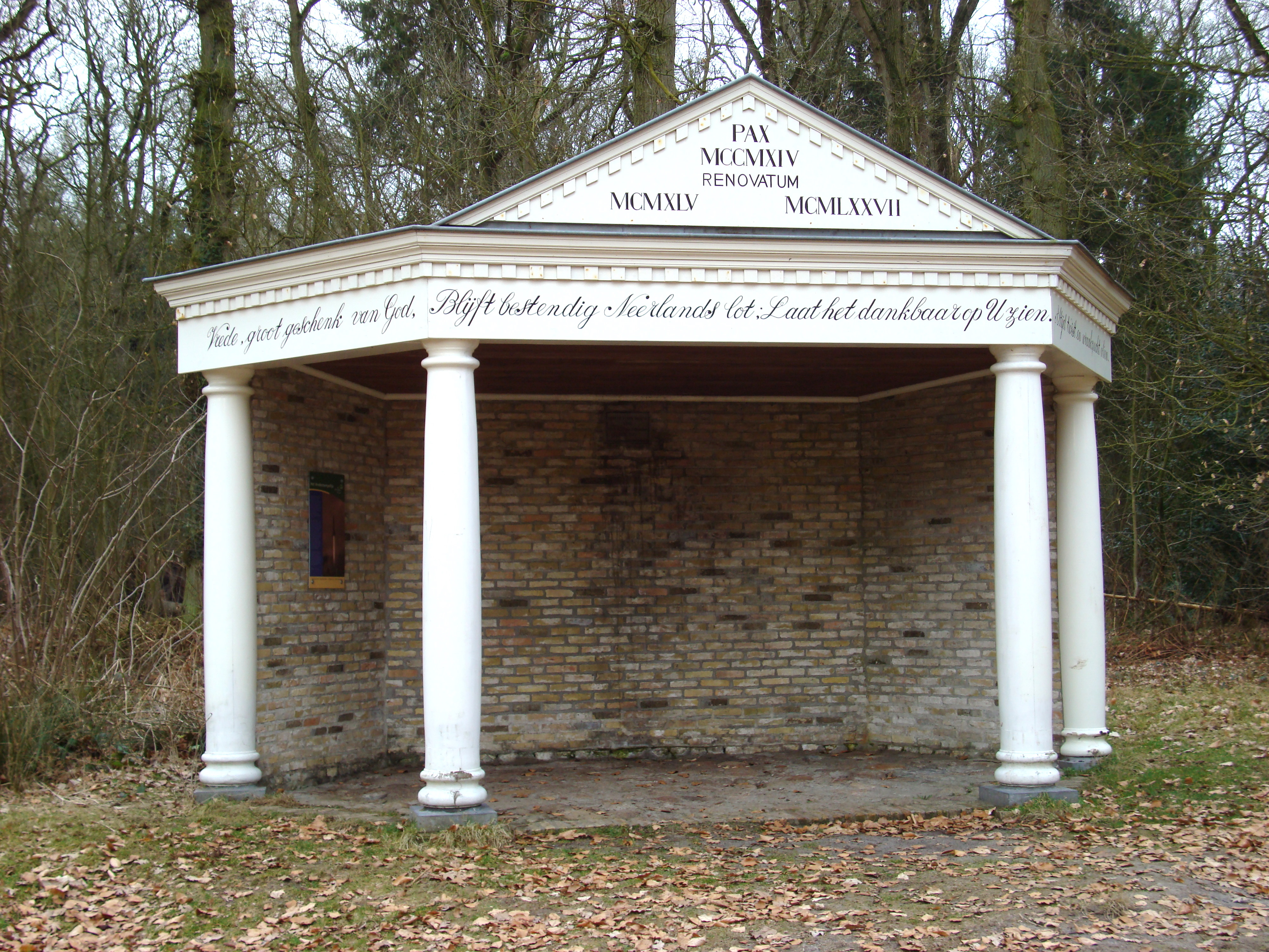 Temple of Peace, Rijs Gaasterlân-Sleat, Netherlands